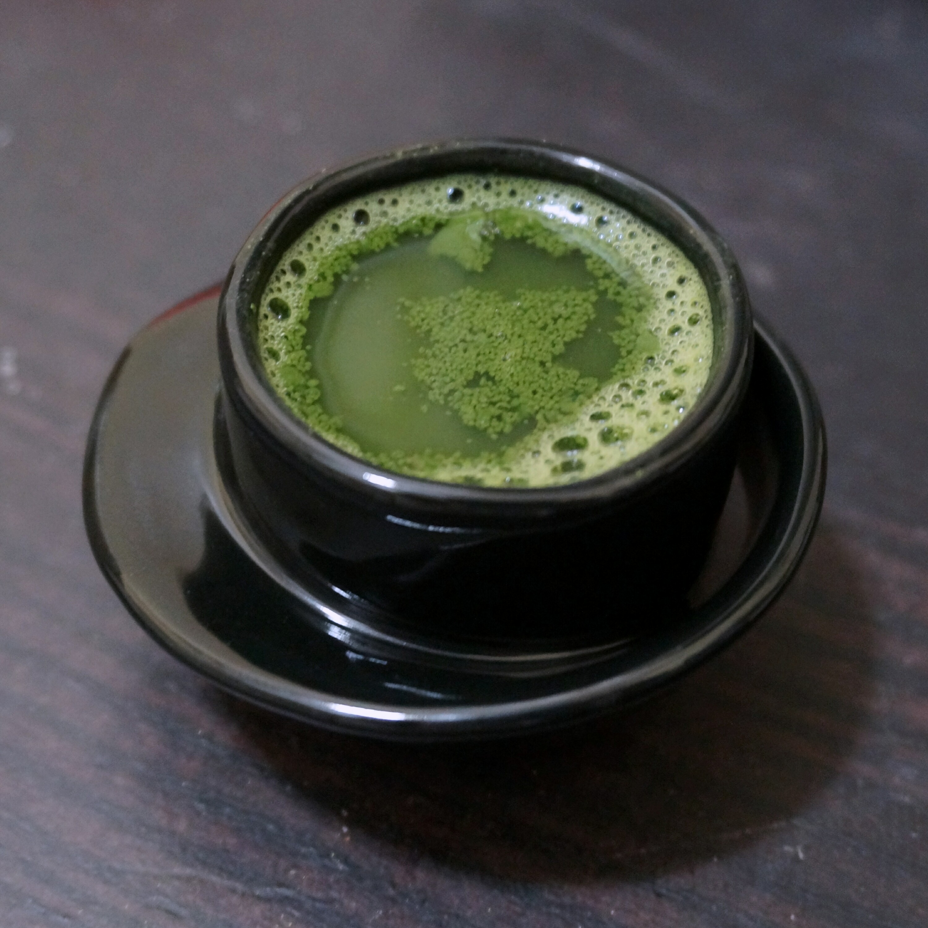 Möbius cup with matcha